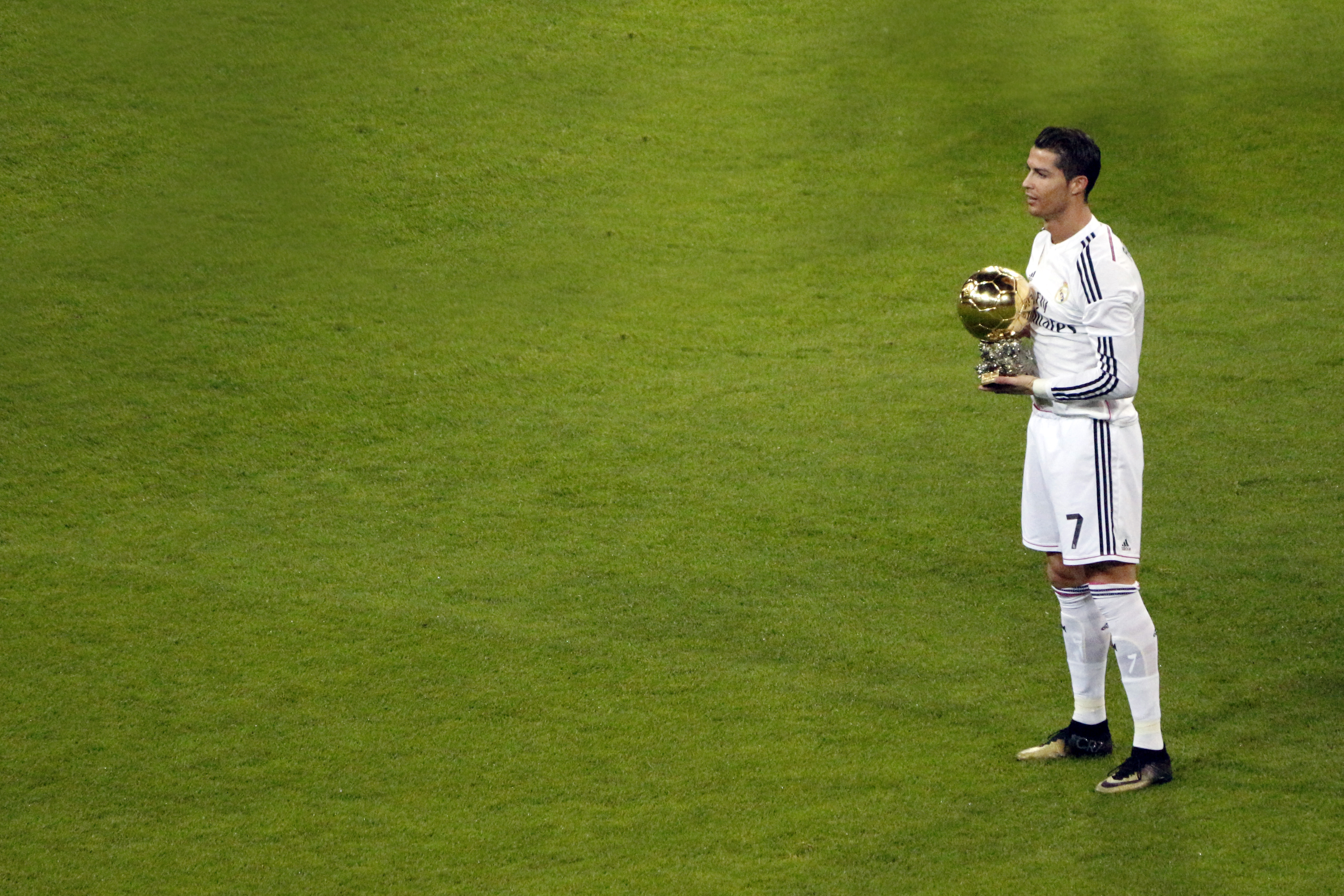 Cristiano Ronaldo presenting Ballon d'Or he received for the 2014.